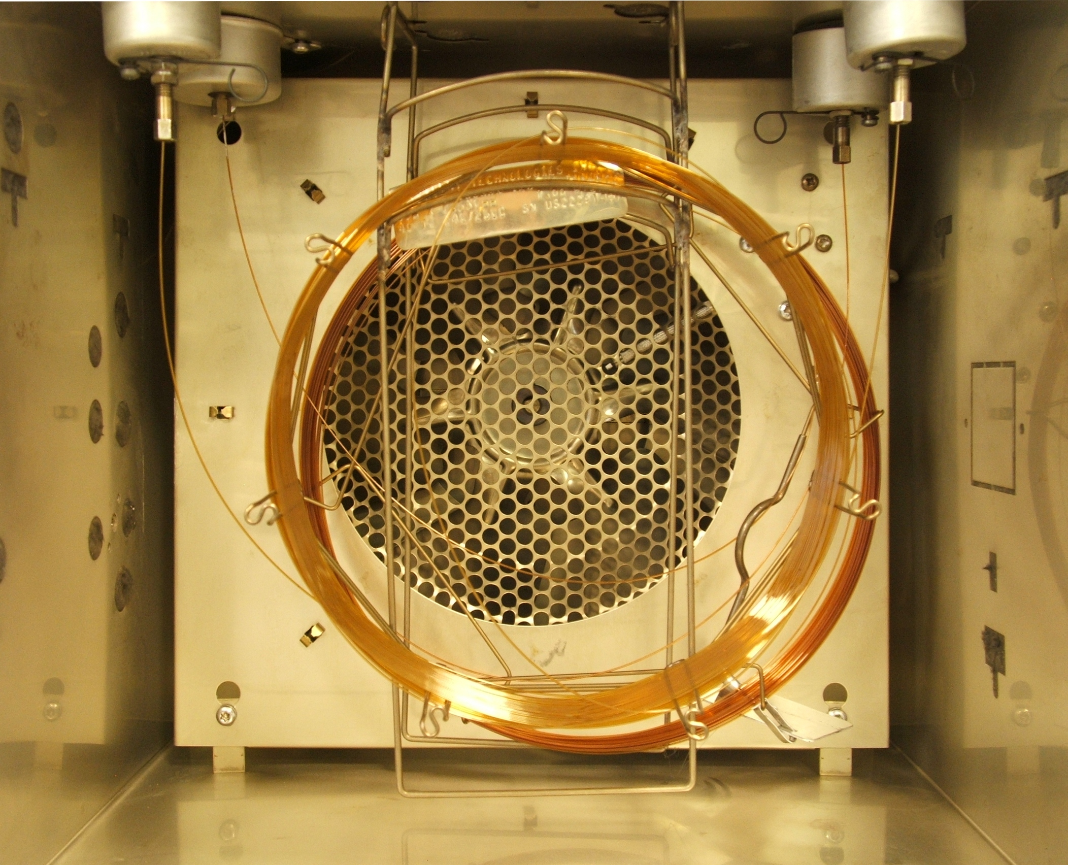 Gas chromatograph - oven with two capillary columns inside